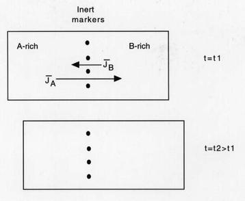 Kirkendall Effect